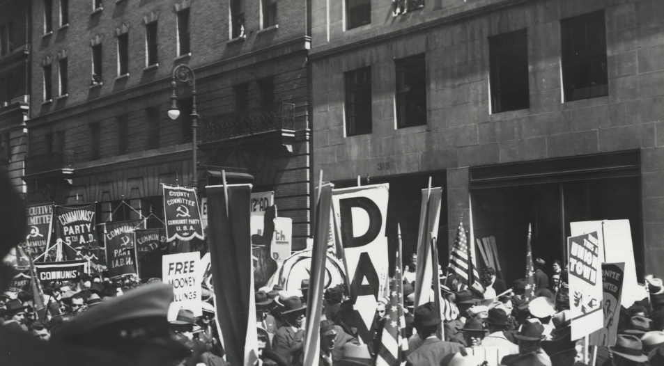 Viitekood / Reference code: ERAF.9595.1.20.23 Kirje andmebaasis FOTIS / Description in the database FOTIS